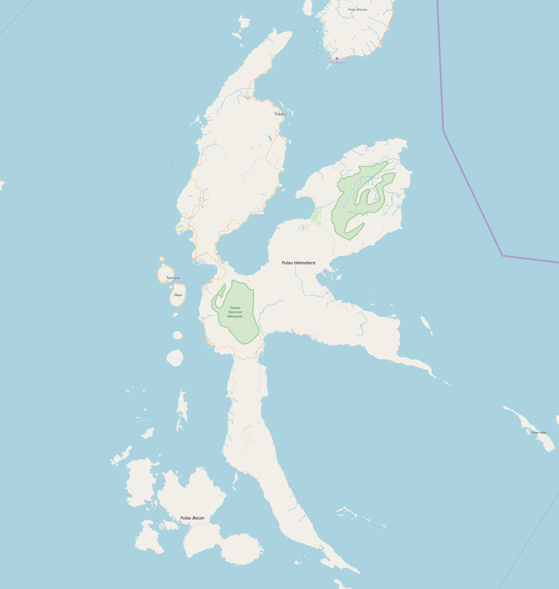 Map of Halmahera, Indonesia Geographic limits of the map: N: 2.38° S: -1° W: 126.39° E: 129.6°